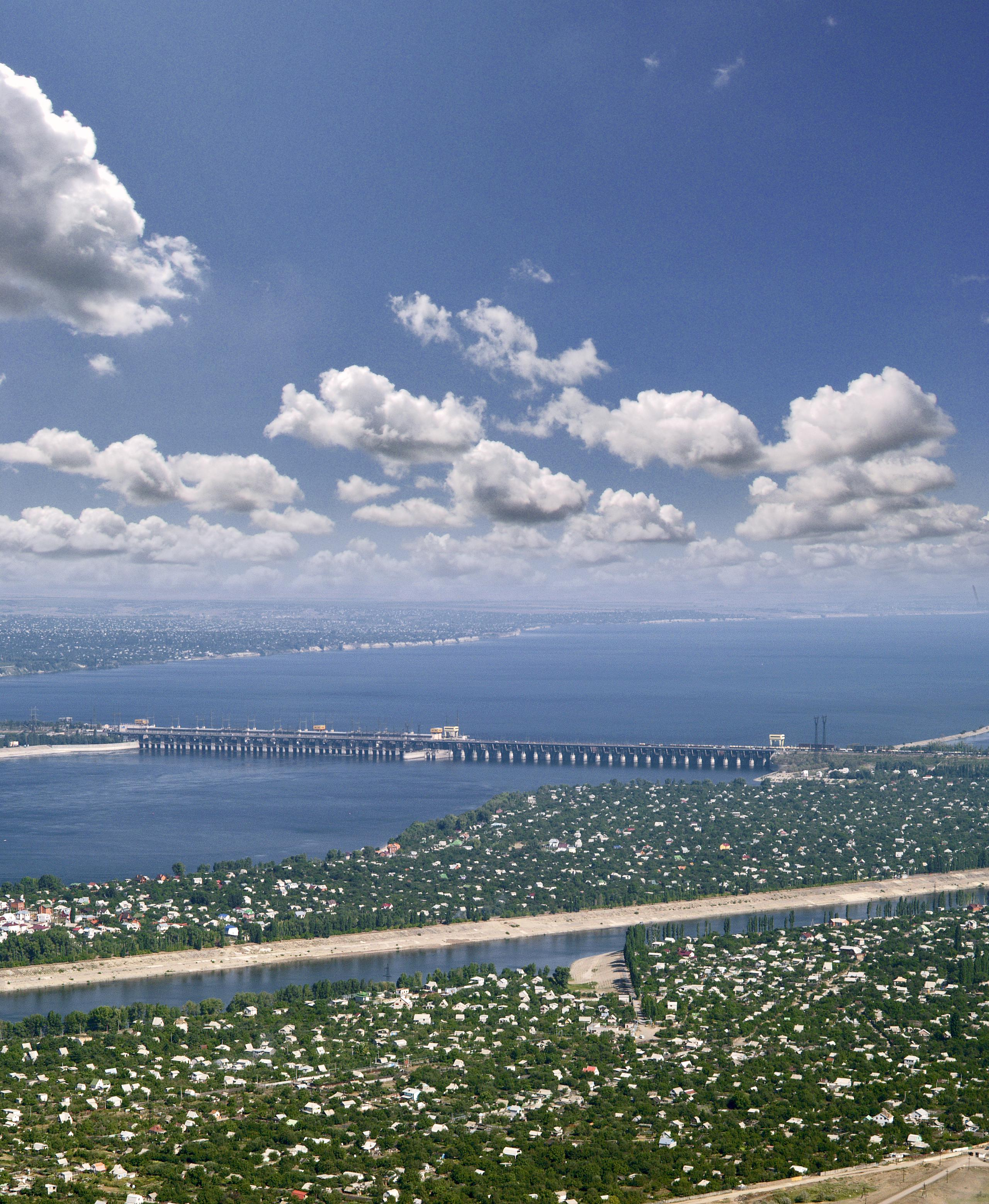 The Volga River and Volga Hydroelectric Station, in Volgograd Oblast.